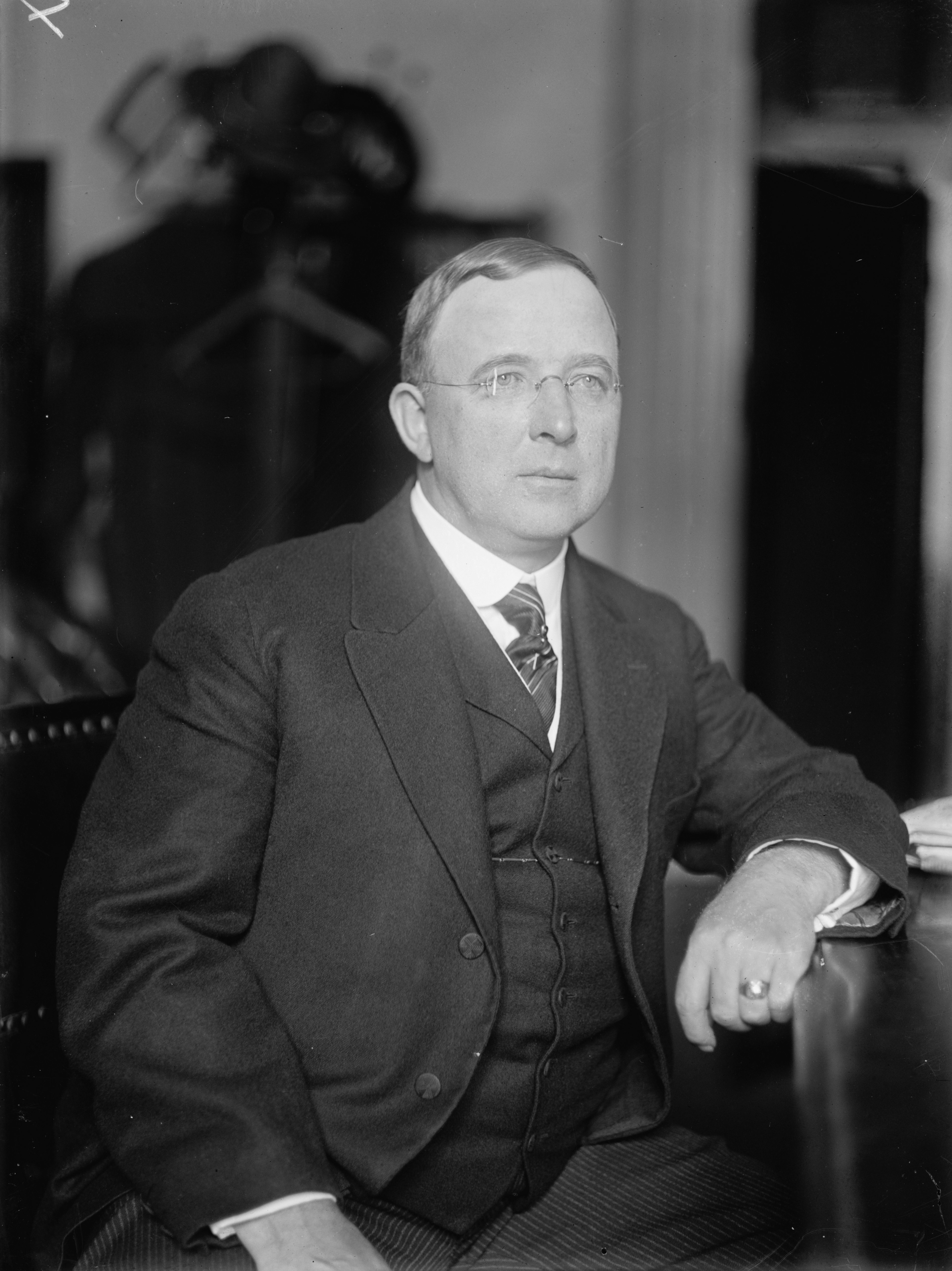 Title: Carl R. Chindblom, Ill. Abstract/medium: 1 negative : glass ; 5 x 7 in. or smaller